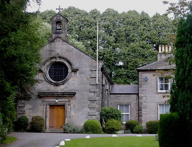 Roman Catholic church of St Michael, Hathersage, Derbyshire, seen from the south